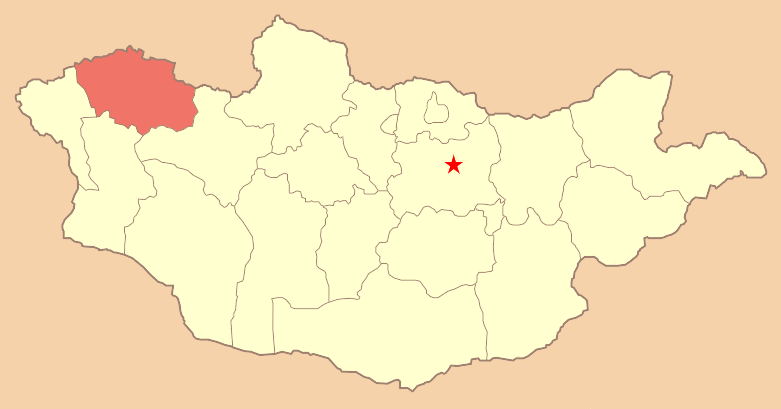 Map of Mongolia with Uvs Aimag highlighted.